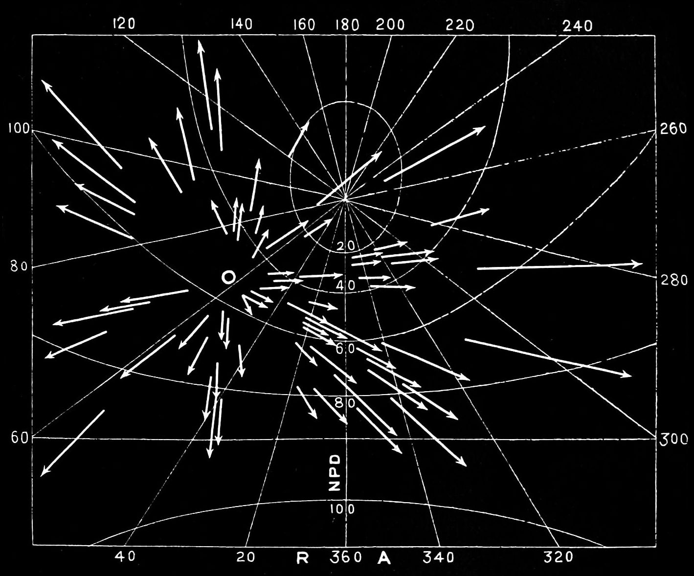 Perseid meteor shower of September 6 and 7.